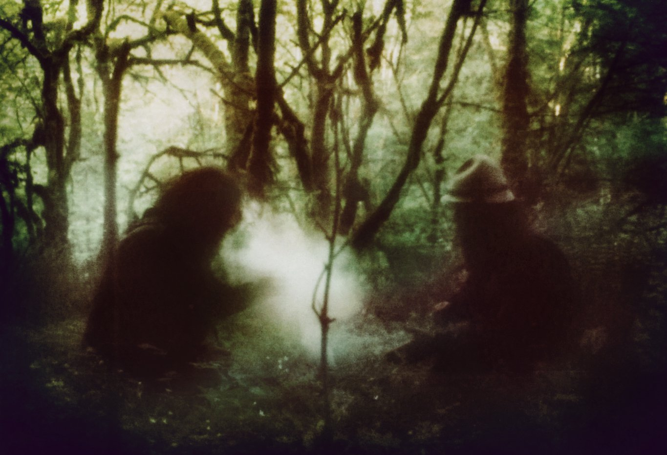 Celestial Lineage 2011. By Alison Scarpulla